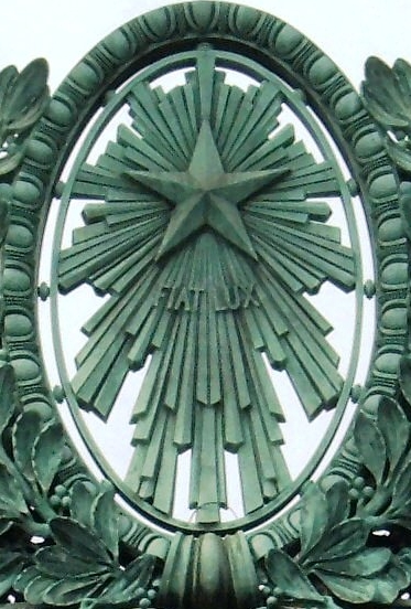 The Sather Gate star.